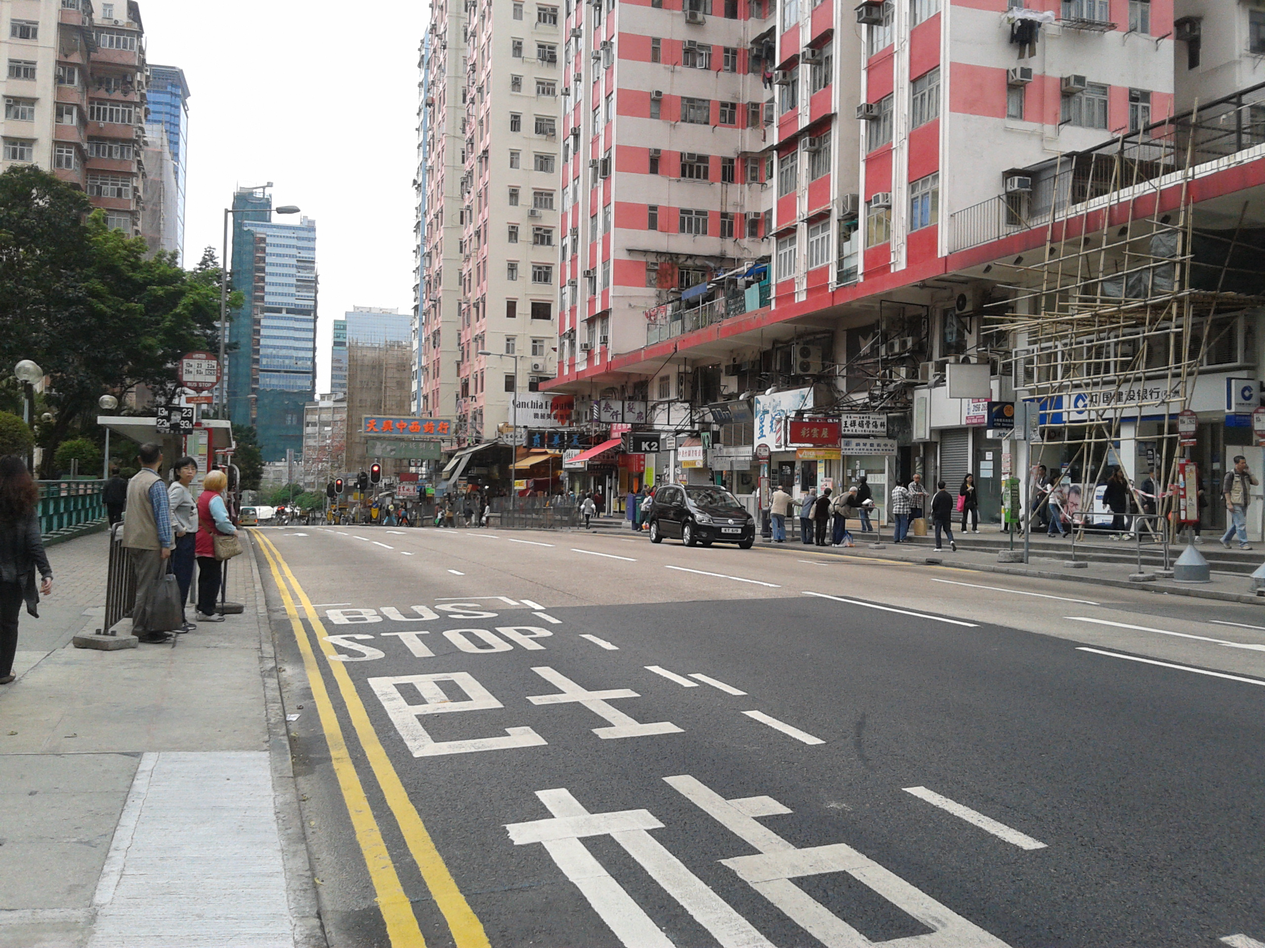 Hip Wo Street near Wo Lok Estate